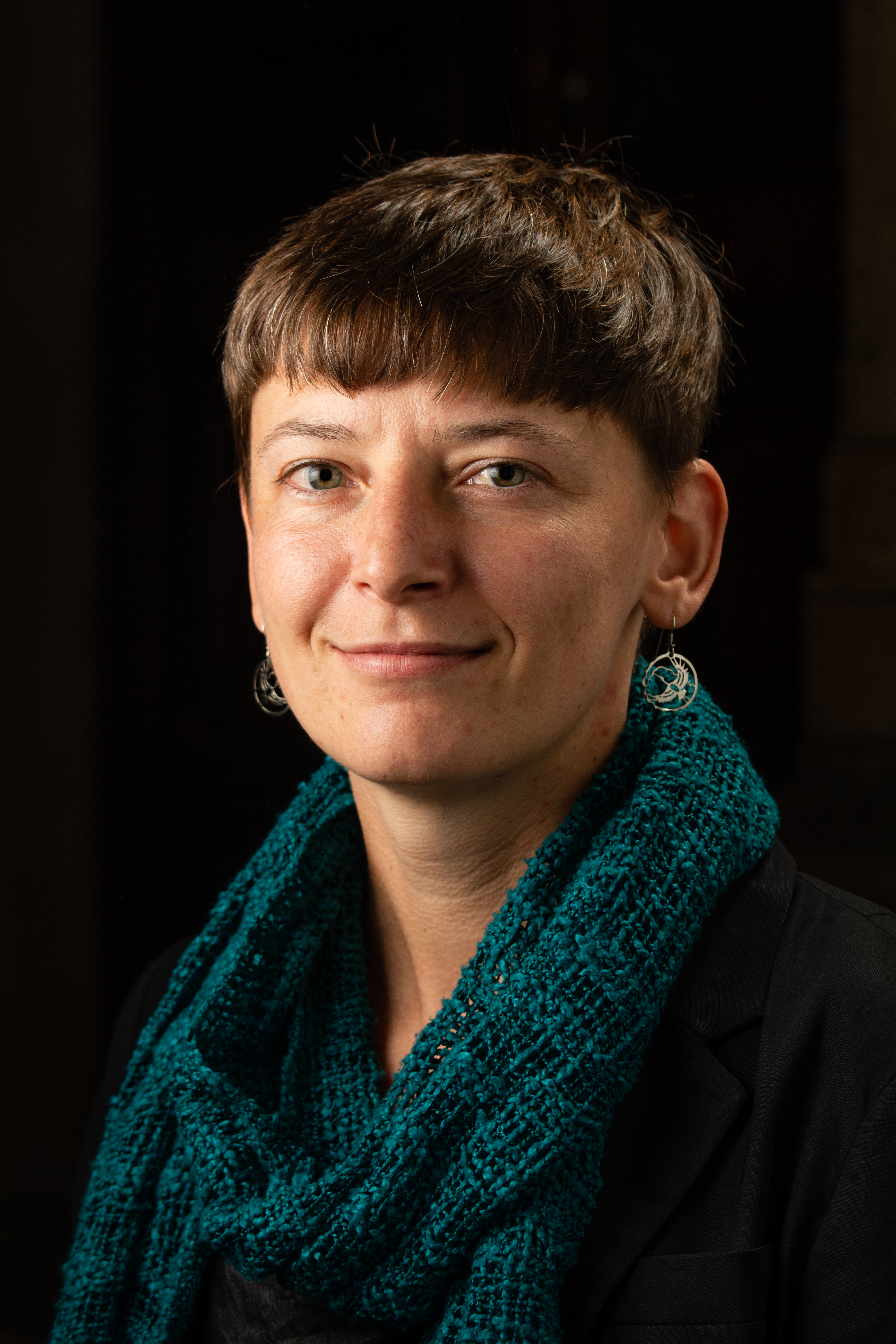 Clare Baldwin at the 2018 Pulitzer Prizes awards ceremony